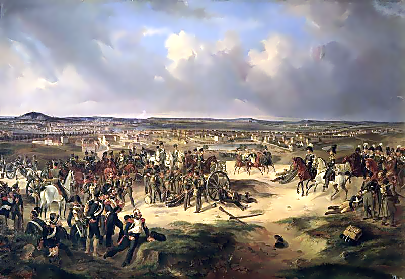 Battle of Paris 17 march 1814